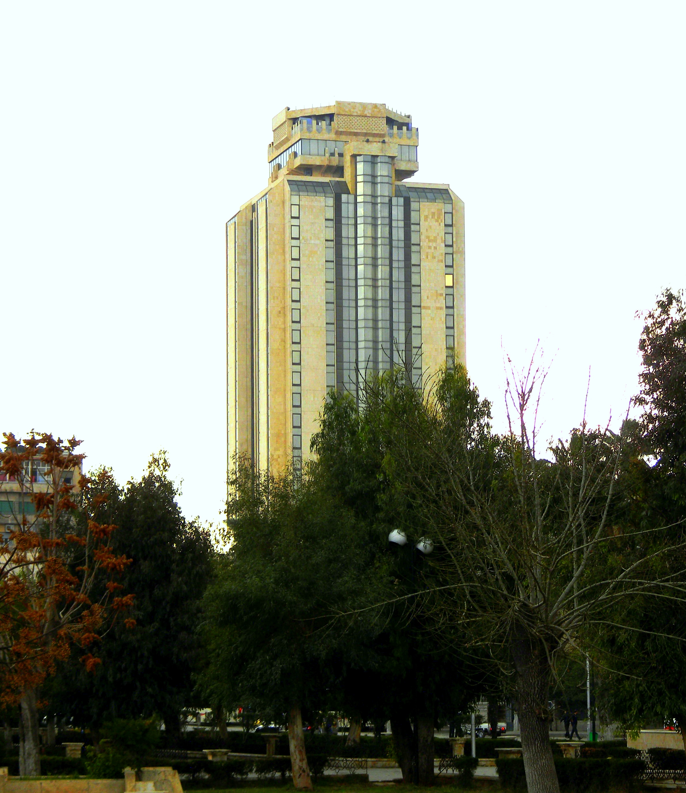 Aleppo City Hall